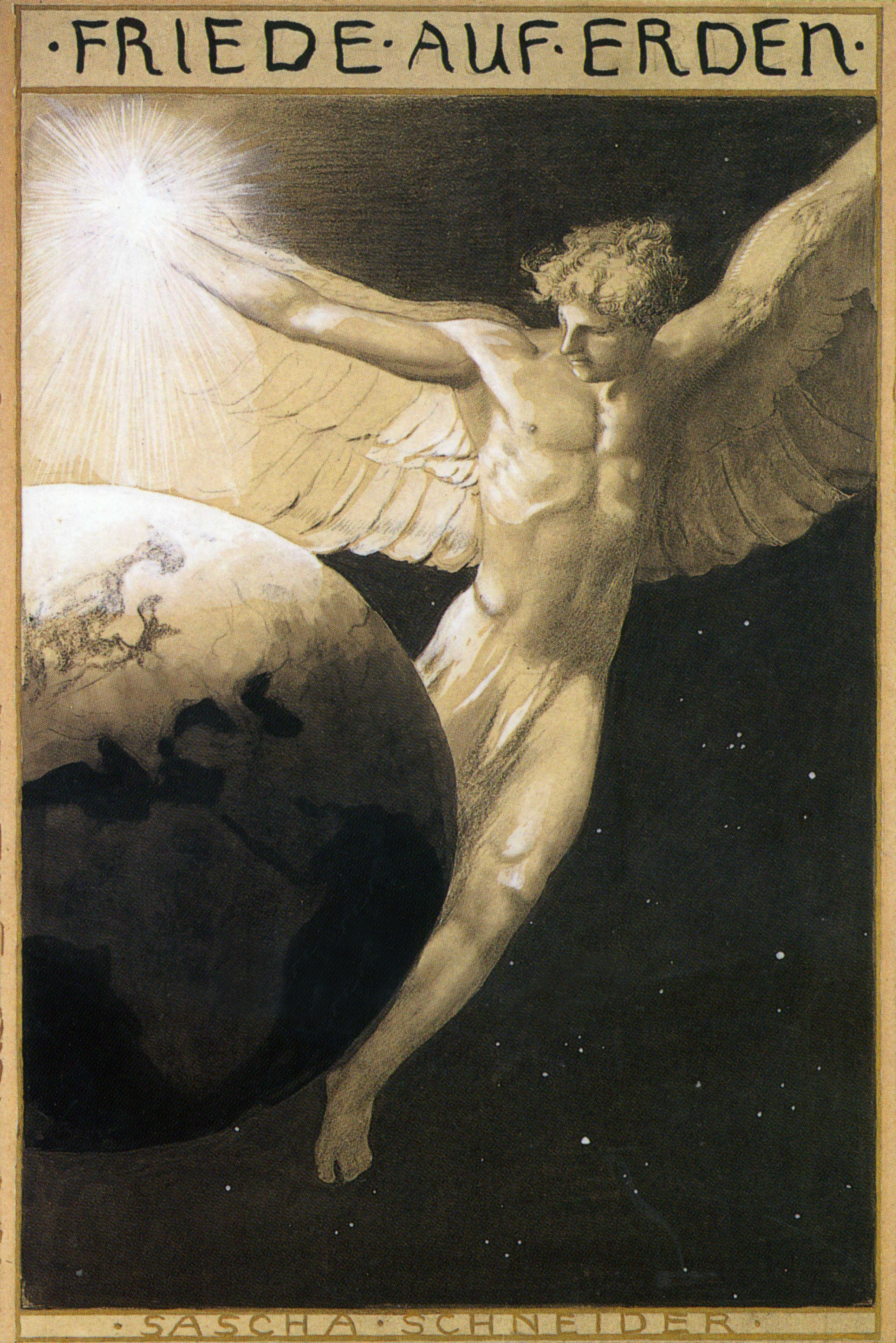 Sascha Schneider, "Peace on Earth", 1904. Cover for Karl May’s Und Friede auf Erden.